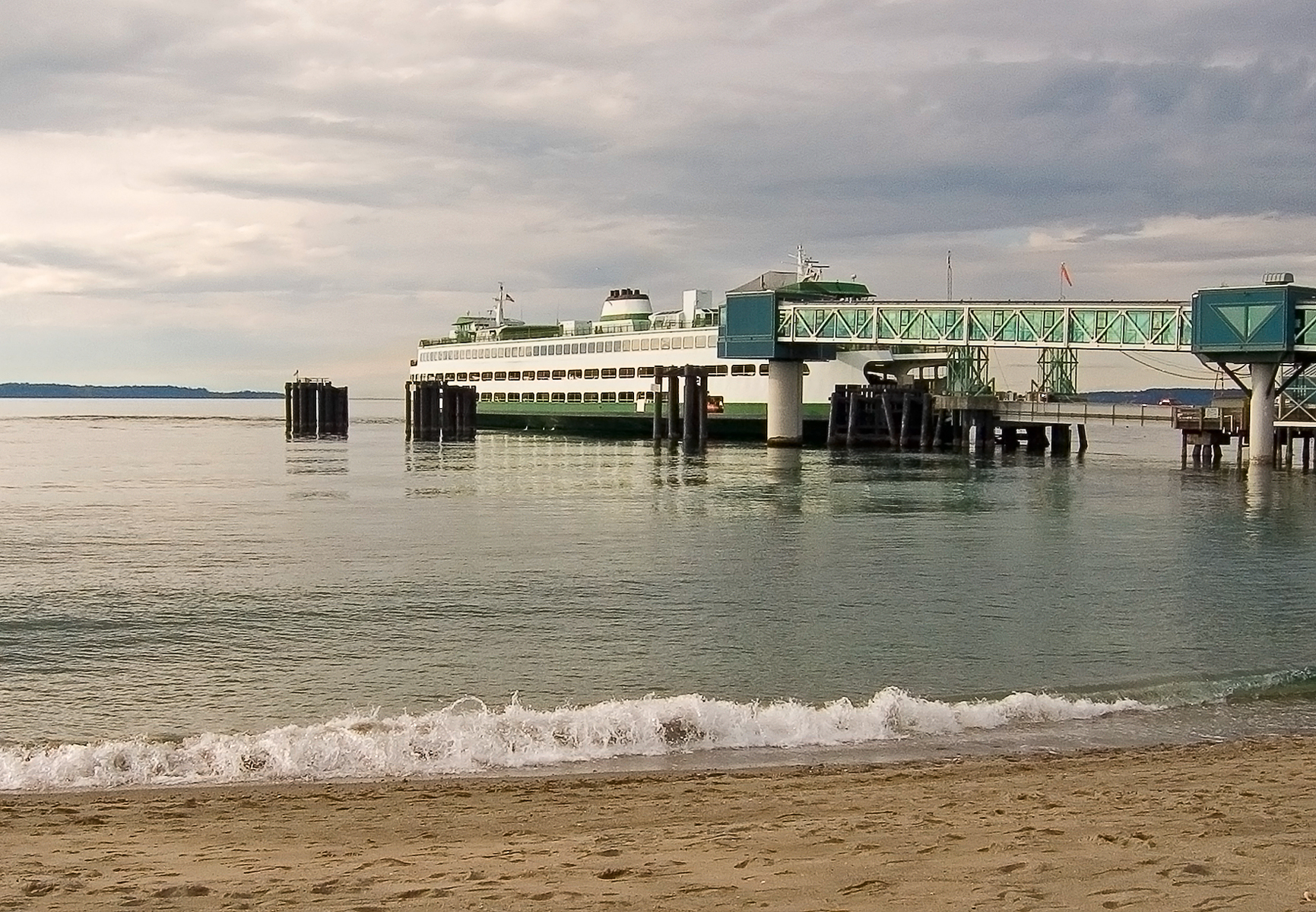 The M/V Spokane ferry, about to leave the Edmonds terminal for Kingston. The ferry terminal is empty in Google's map of this place.